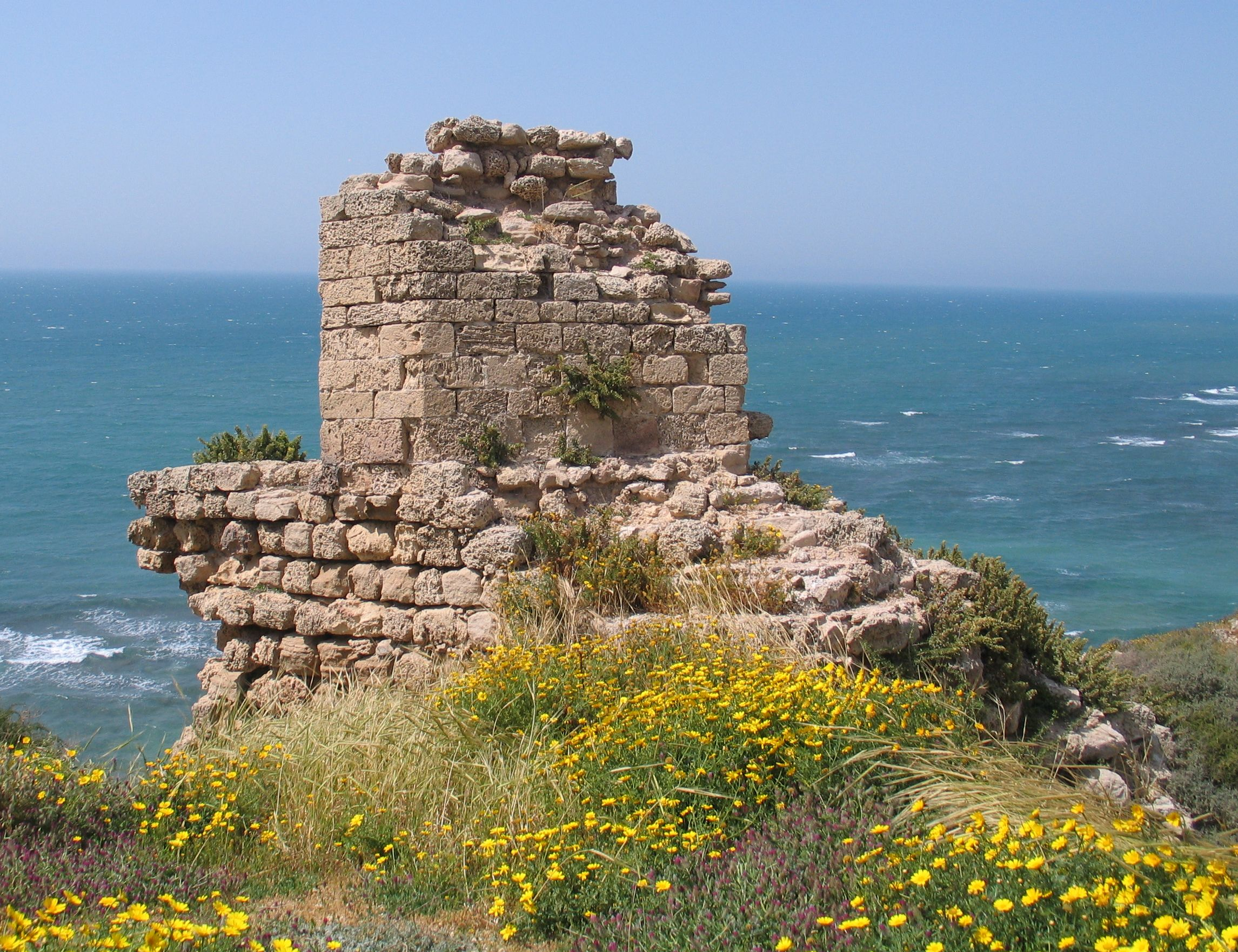 Arsuf fortress - a storage installation. Apollonia National Park, Israel.